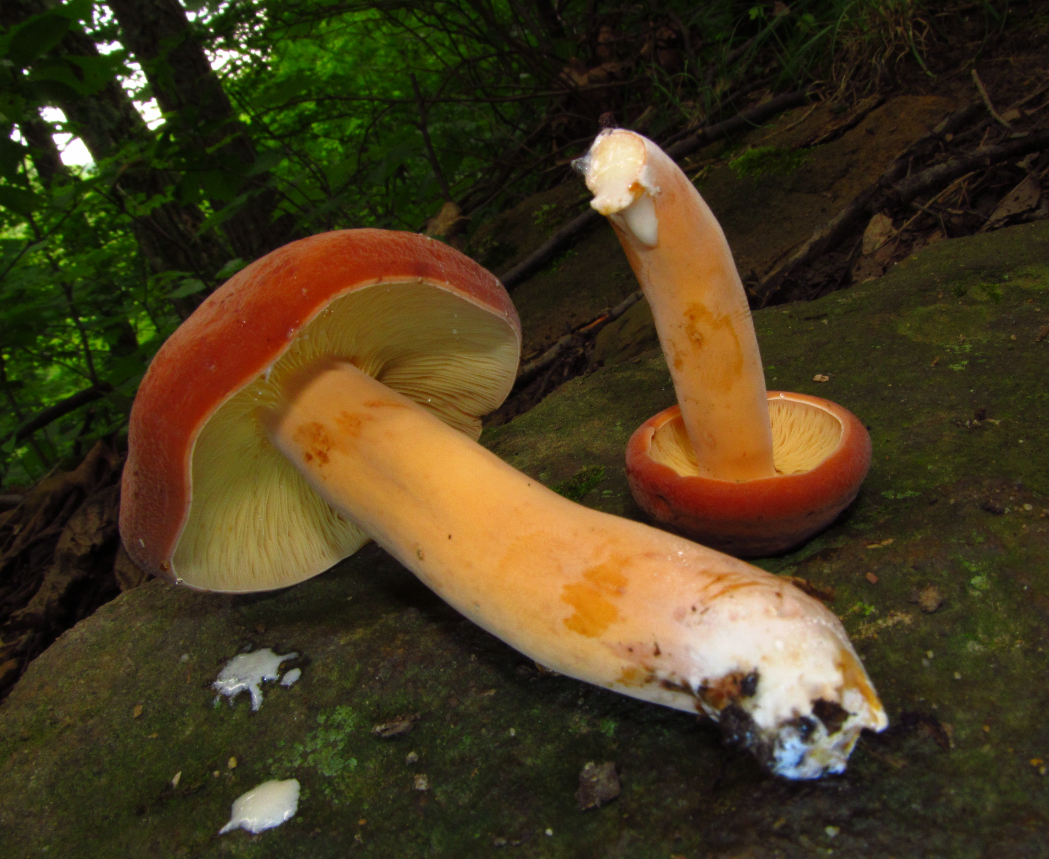 Lactarius volemus (Fr.) Fr. Location: Strouds Run State Park, Athens, Ohio, USA For more information about this, see the observation page at Mushroom Observer.